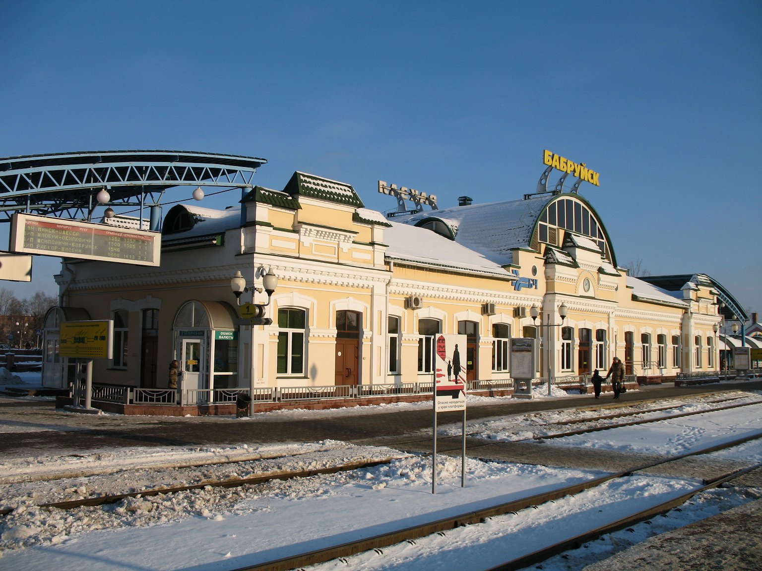 View of the Bobrujsk railway station, in Belarus. Bobrujsk and Zlobin railway stations are the main stations between Minsk and Gomel.